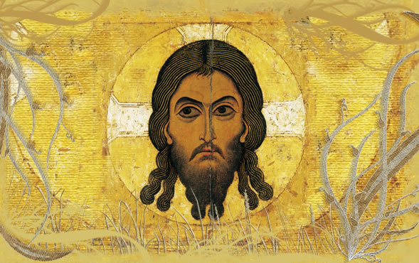 logo